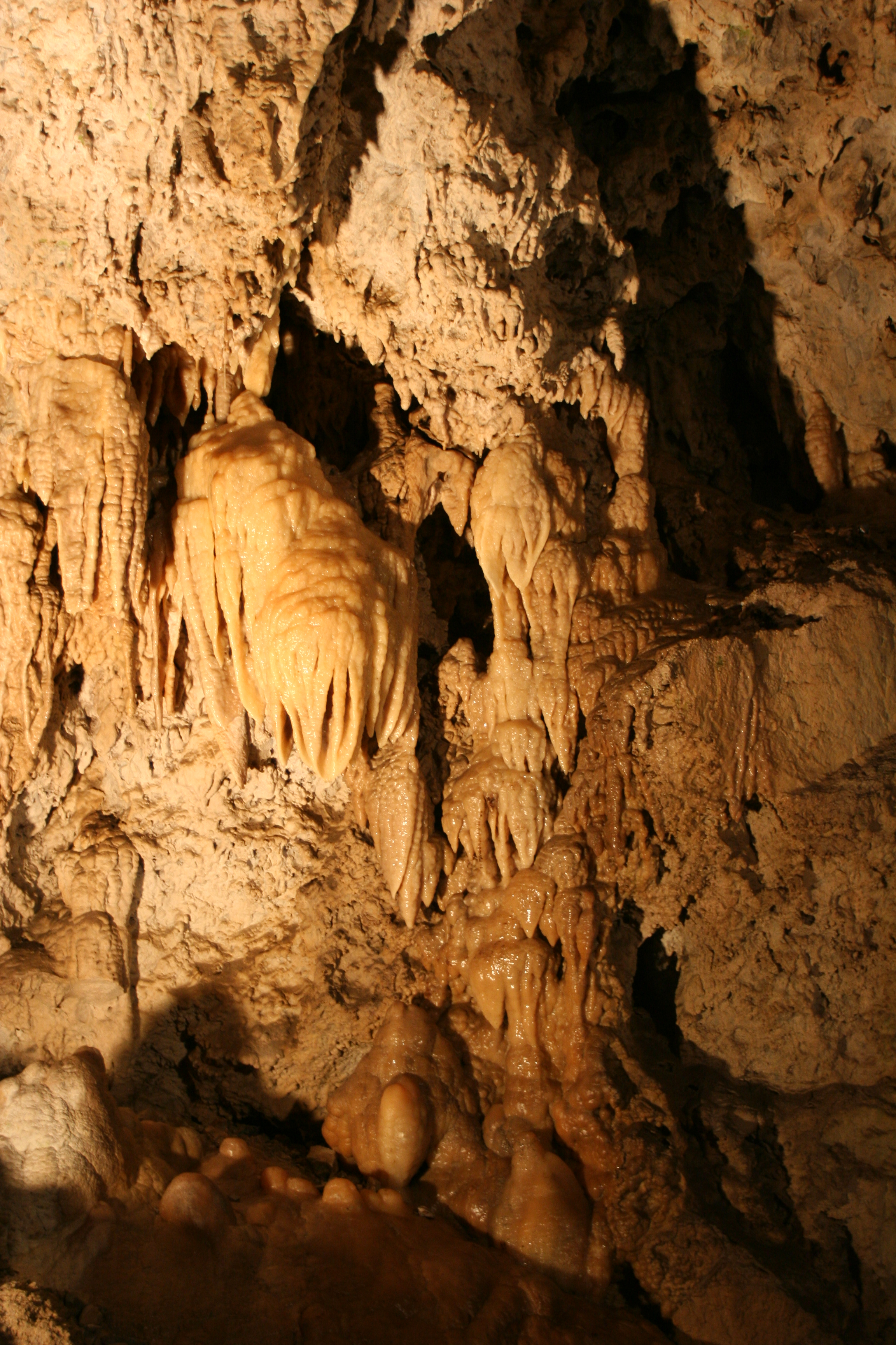 Demänová Cave of Freedom (Demänovská jaskyňa Slobody), Slovakia. Taking this photo was made possible through the financial support of Wikimedia Polska.